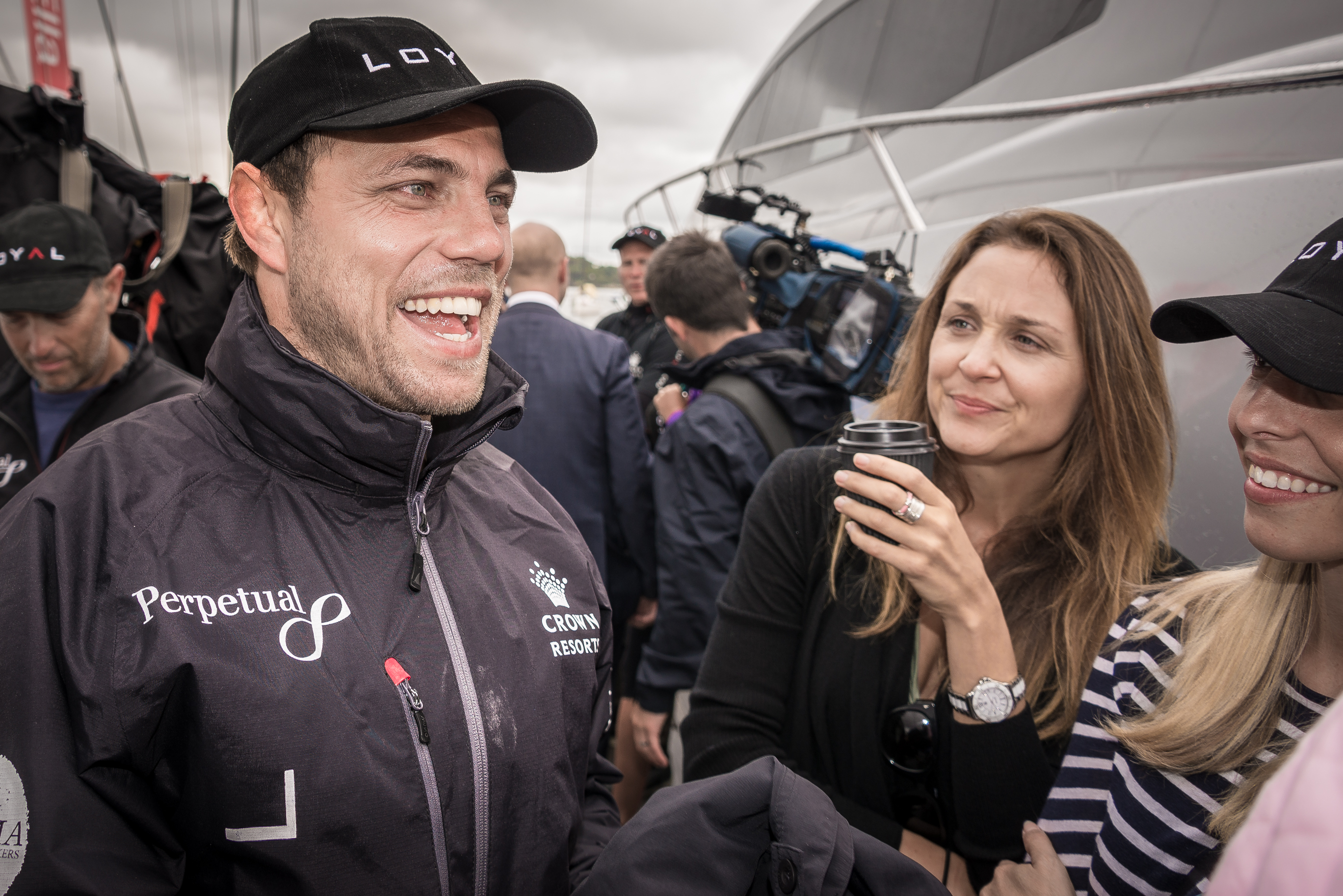 Phil Waugh speaks to the media after super-maxi yacht Perpetual Loyal returns to Sydney.